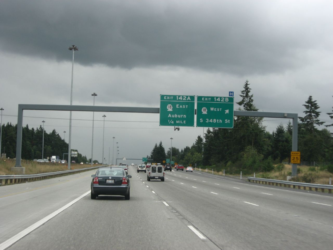 Interstate 5 approaching its interchange with Washington State Route 18 in Federal Way